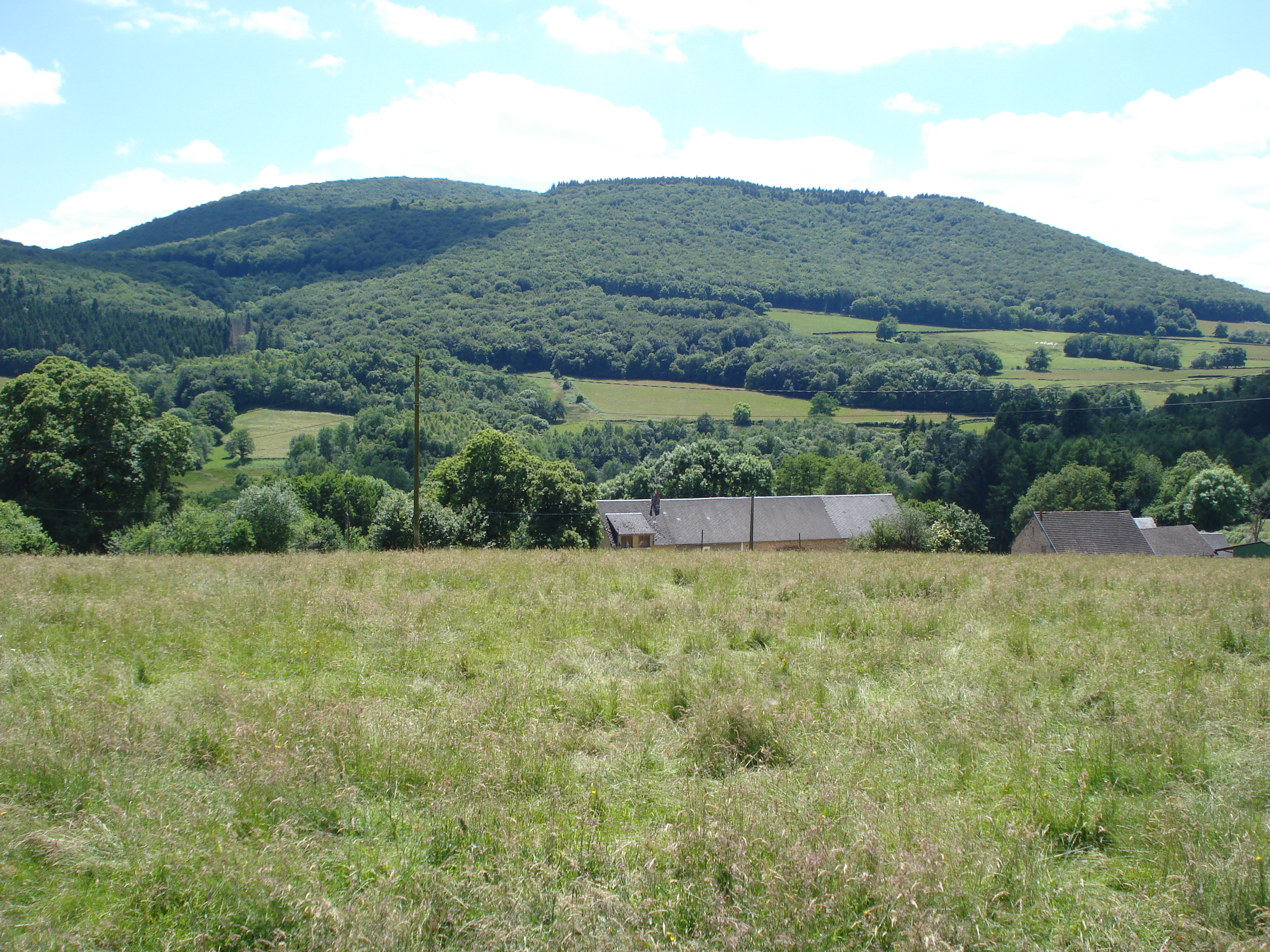 Mont Beuvray, vue du nord.